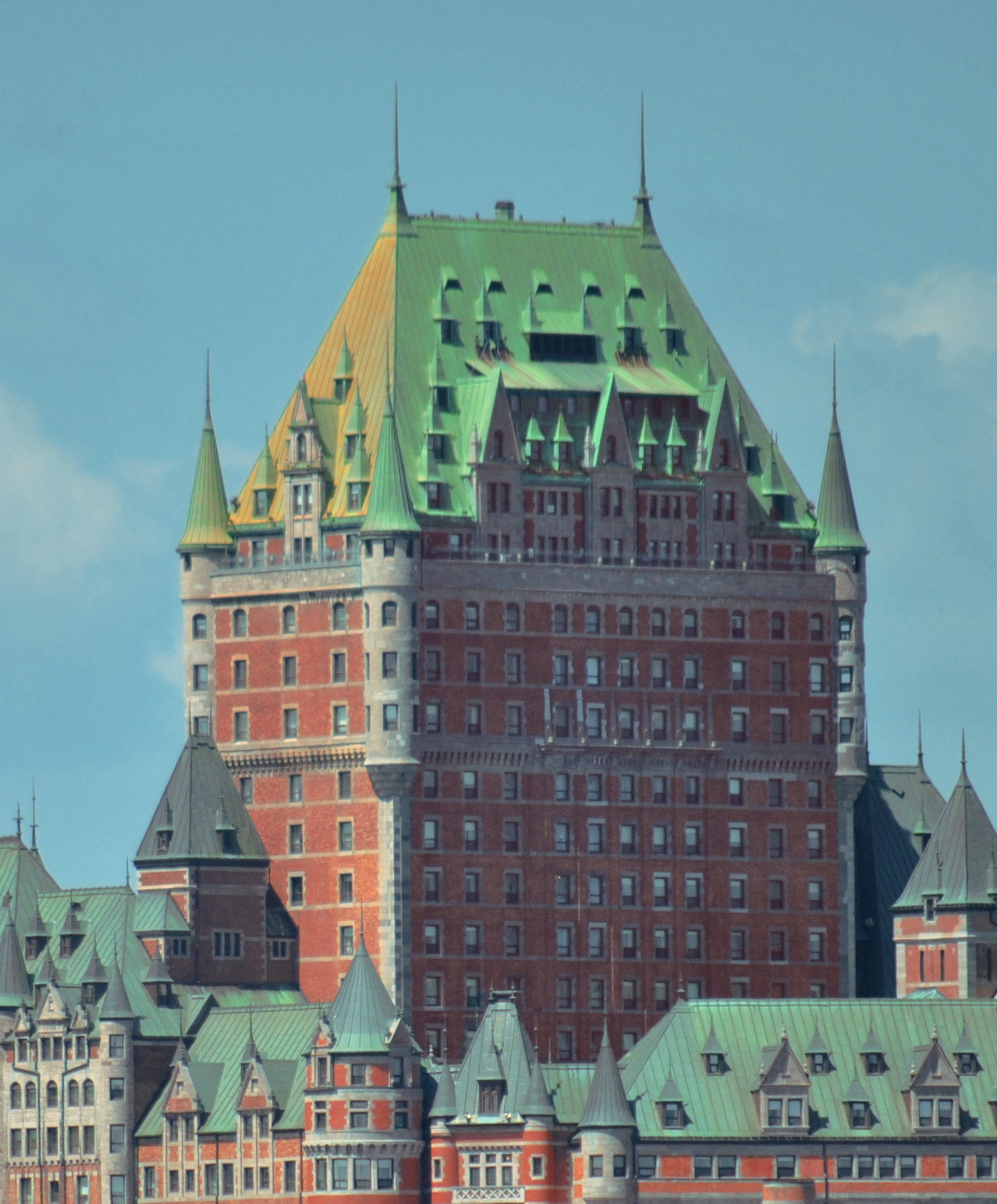 The Château Frontenac, in Quebec City (Canada).